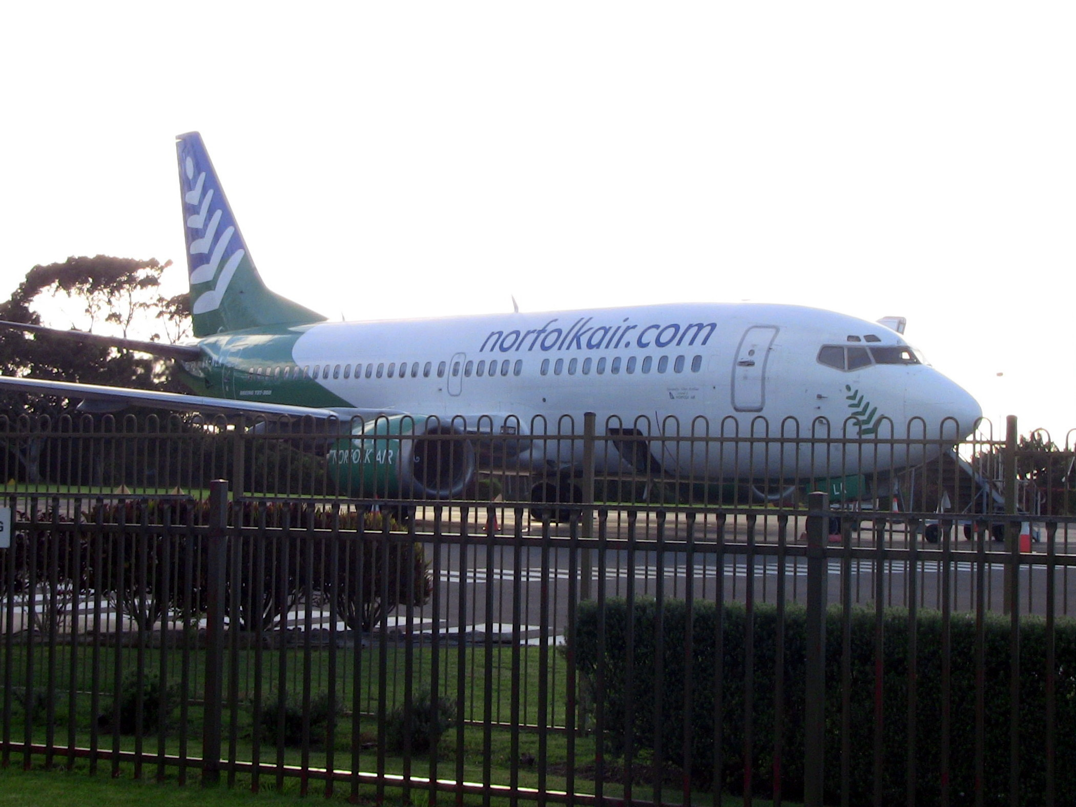 A Norfolk Air plane at Norfolk Island Airport prior to departure for Brisbane, taken one month before the airline is due to cease operations.